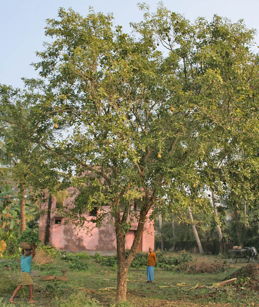 Bael Aegle marmelos at Narendrapur near Kolkata, West Bengal, India.